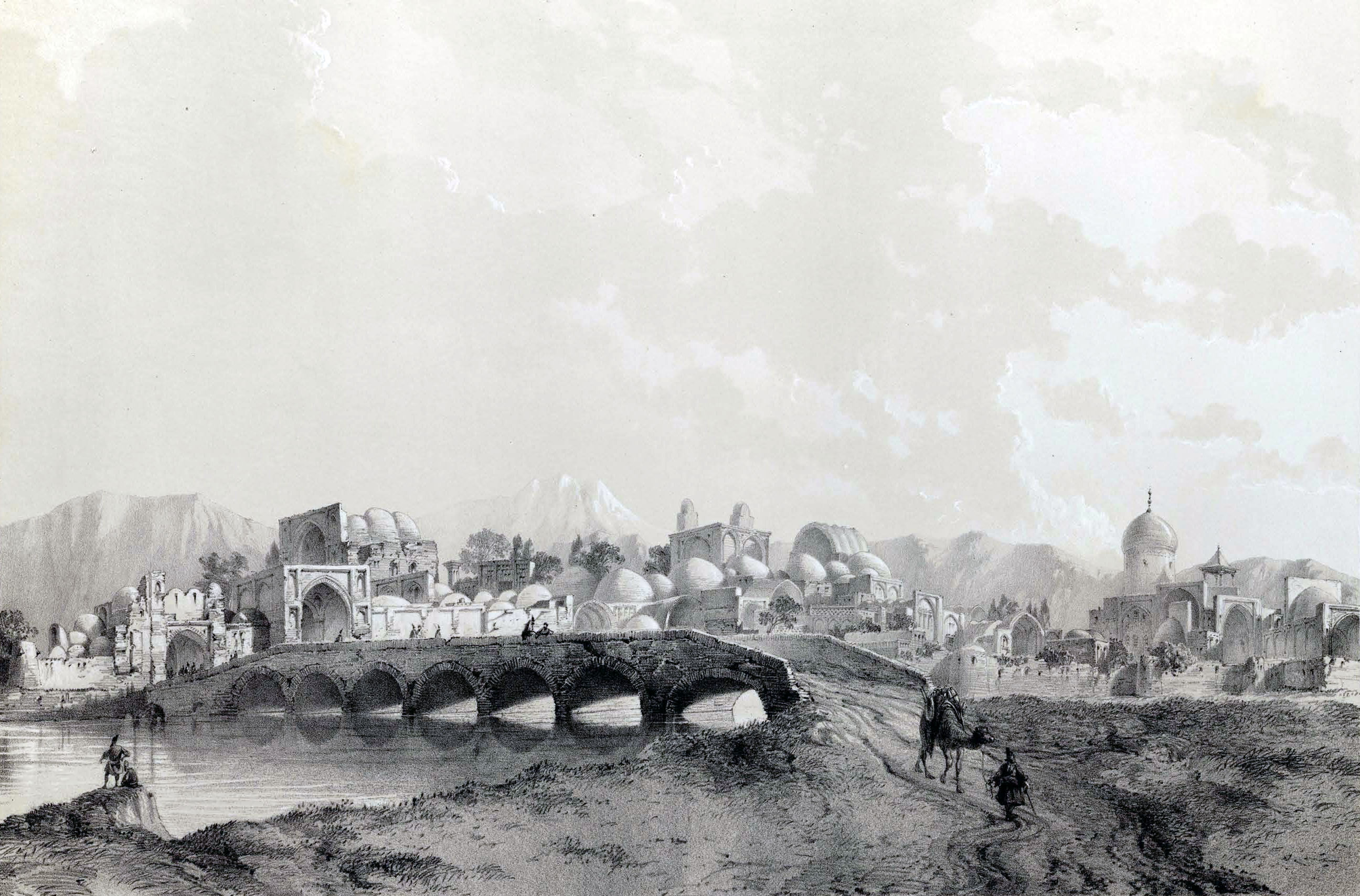 View of the bridge and the city of Qum